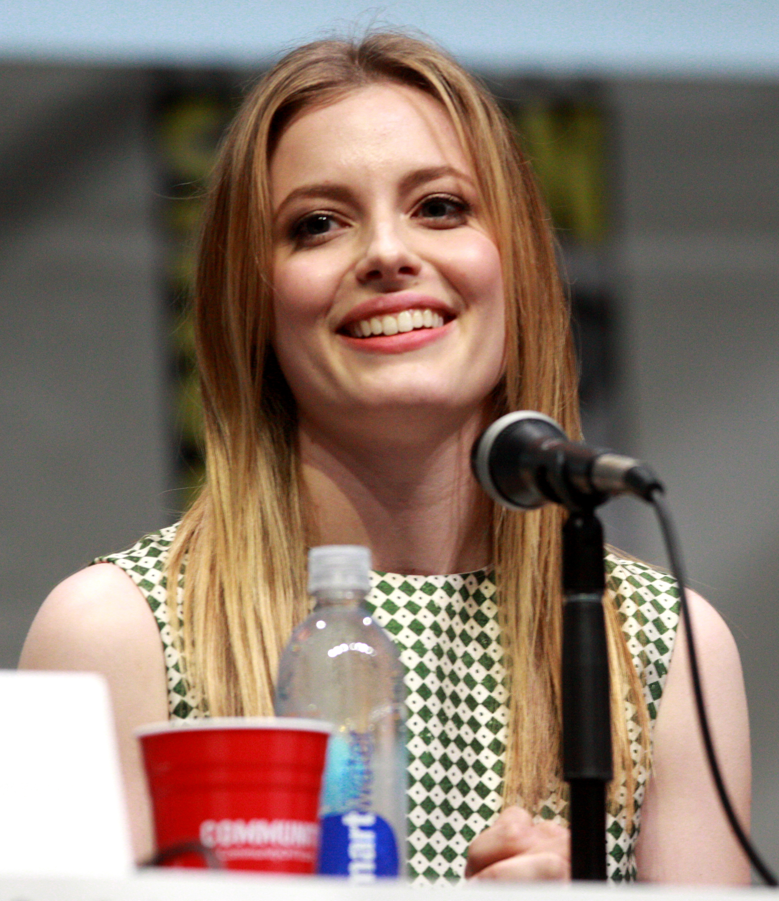 Gillian Jacobs at the 2013 San Diego Comic Con International in San Diego, California.